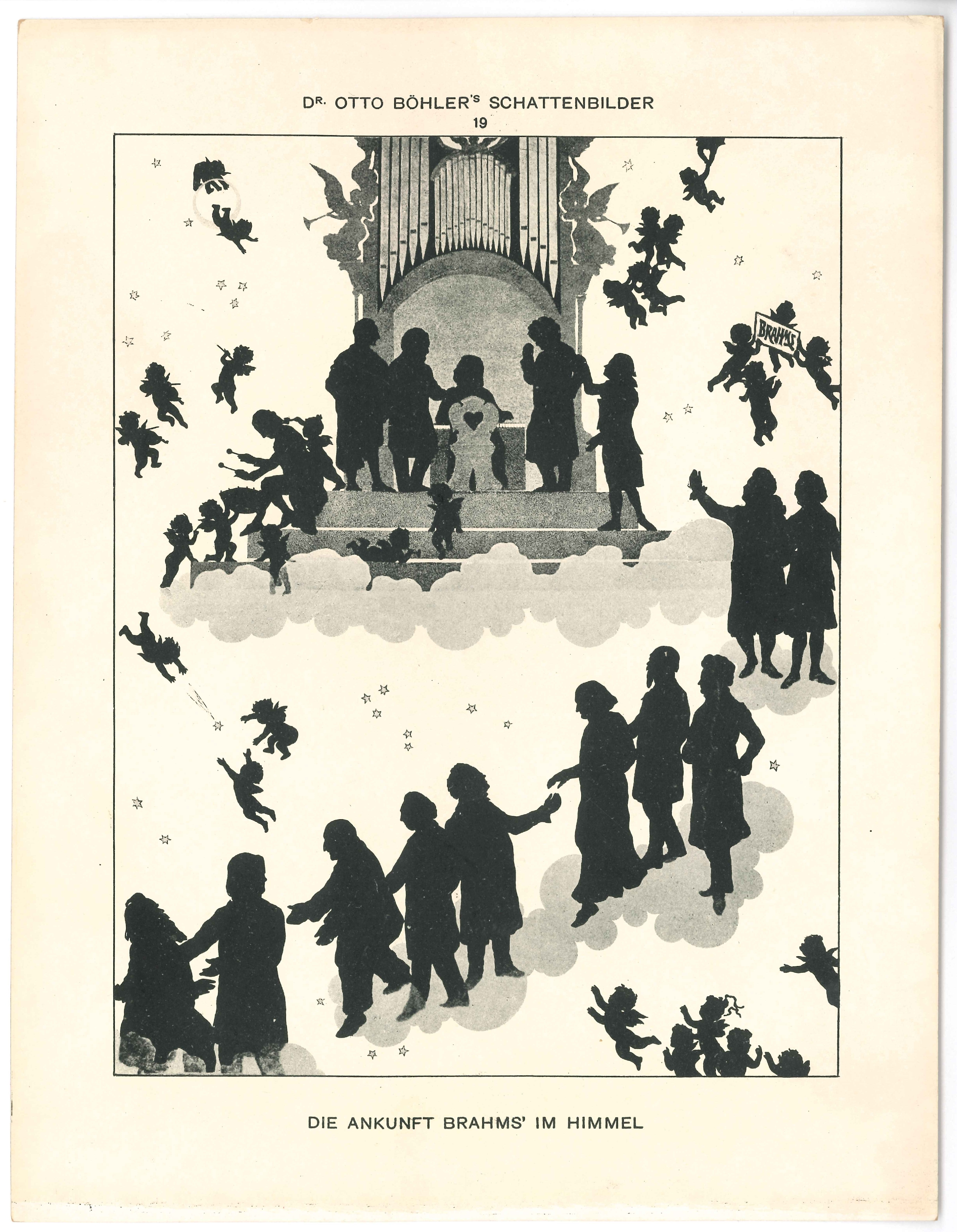 The arrival of Brahms in heaven, silhouette 20 x 26 cm; photo of Böhler´s silhouette printed on thick card